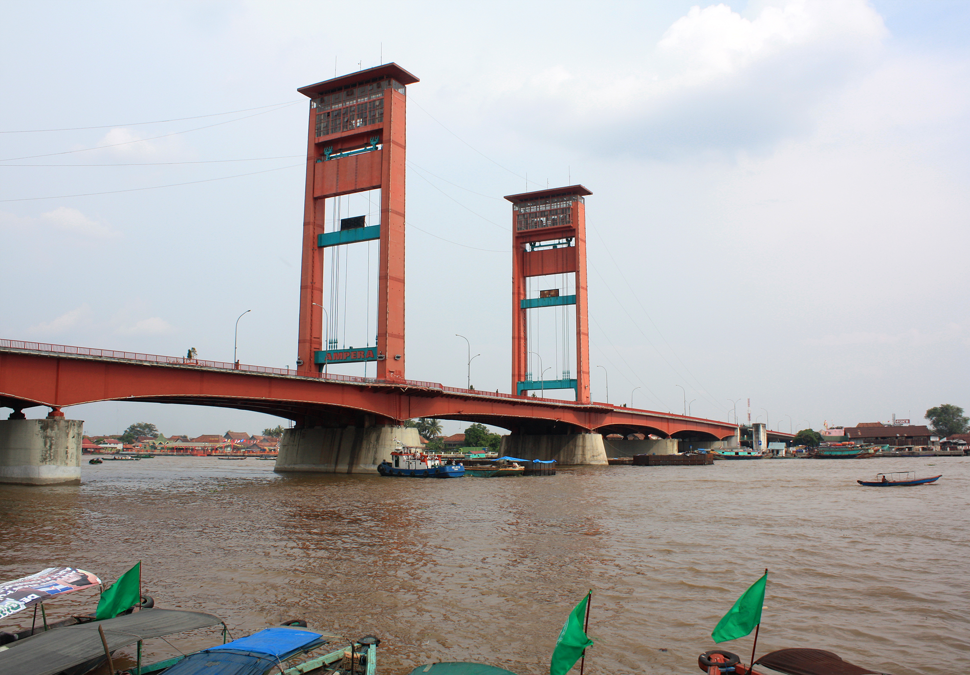 The Ampera Bridge crossing Musi River is a major landmark in Palembang, Indonesia. It was constructed in 1962-1965.